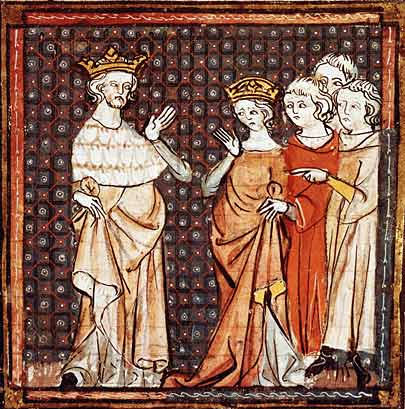 Louis II of France